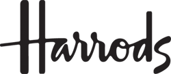 Harrods logo. Source: Brands of the World.